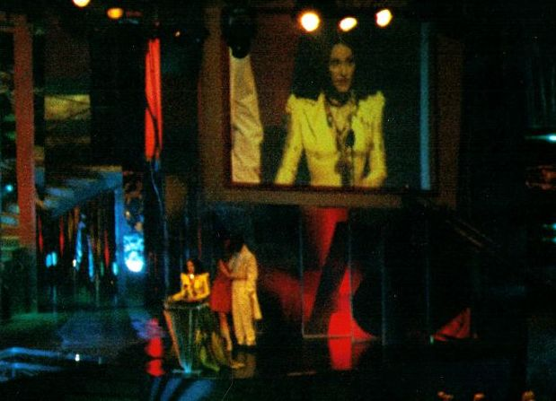 Madonna attending the 1998 VH1 Fashion Show Awards